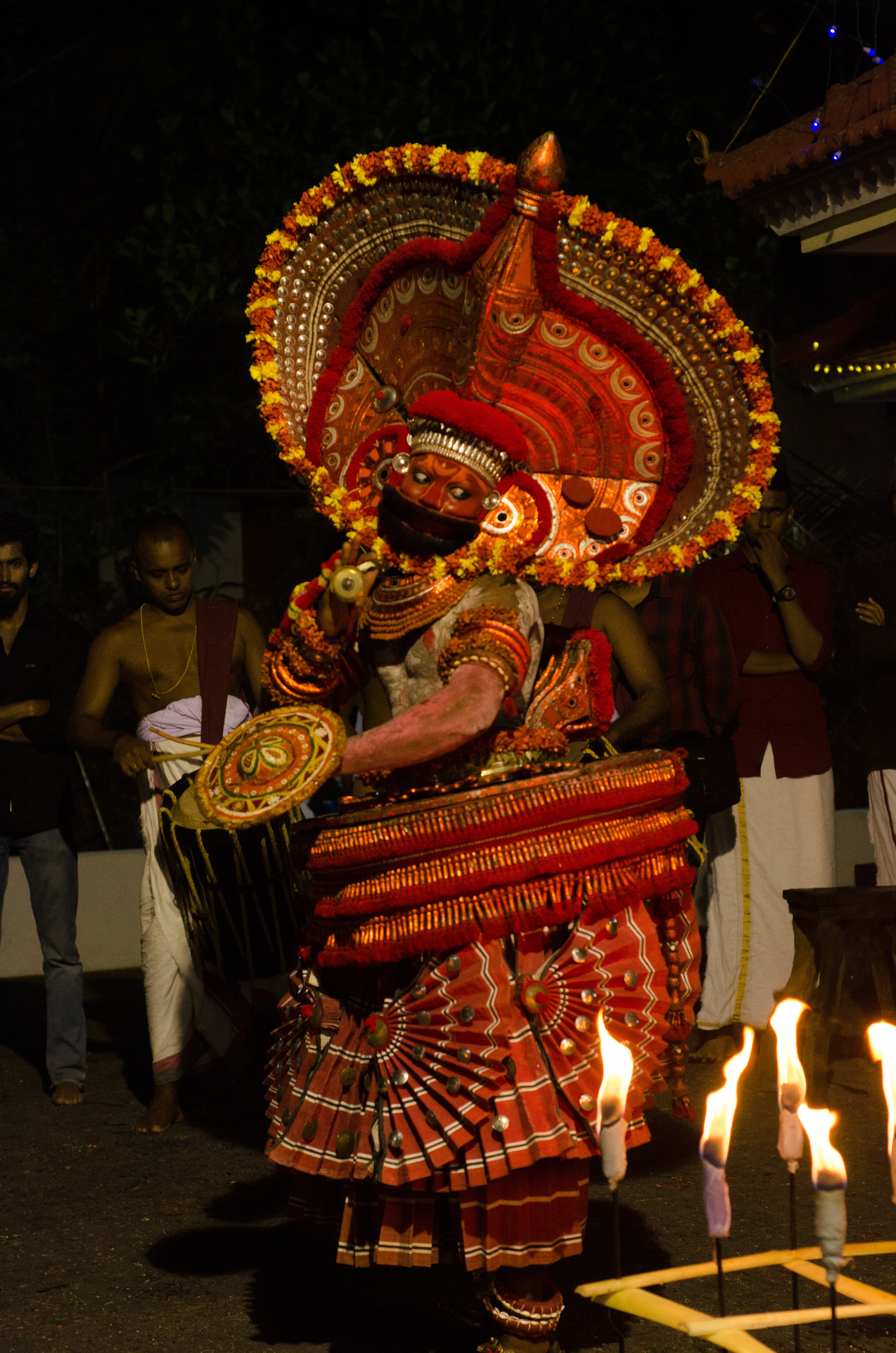 Kudiveeran theyyam from Machilpuram tharavadu,Cherukunnu,Kannur